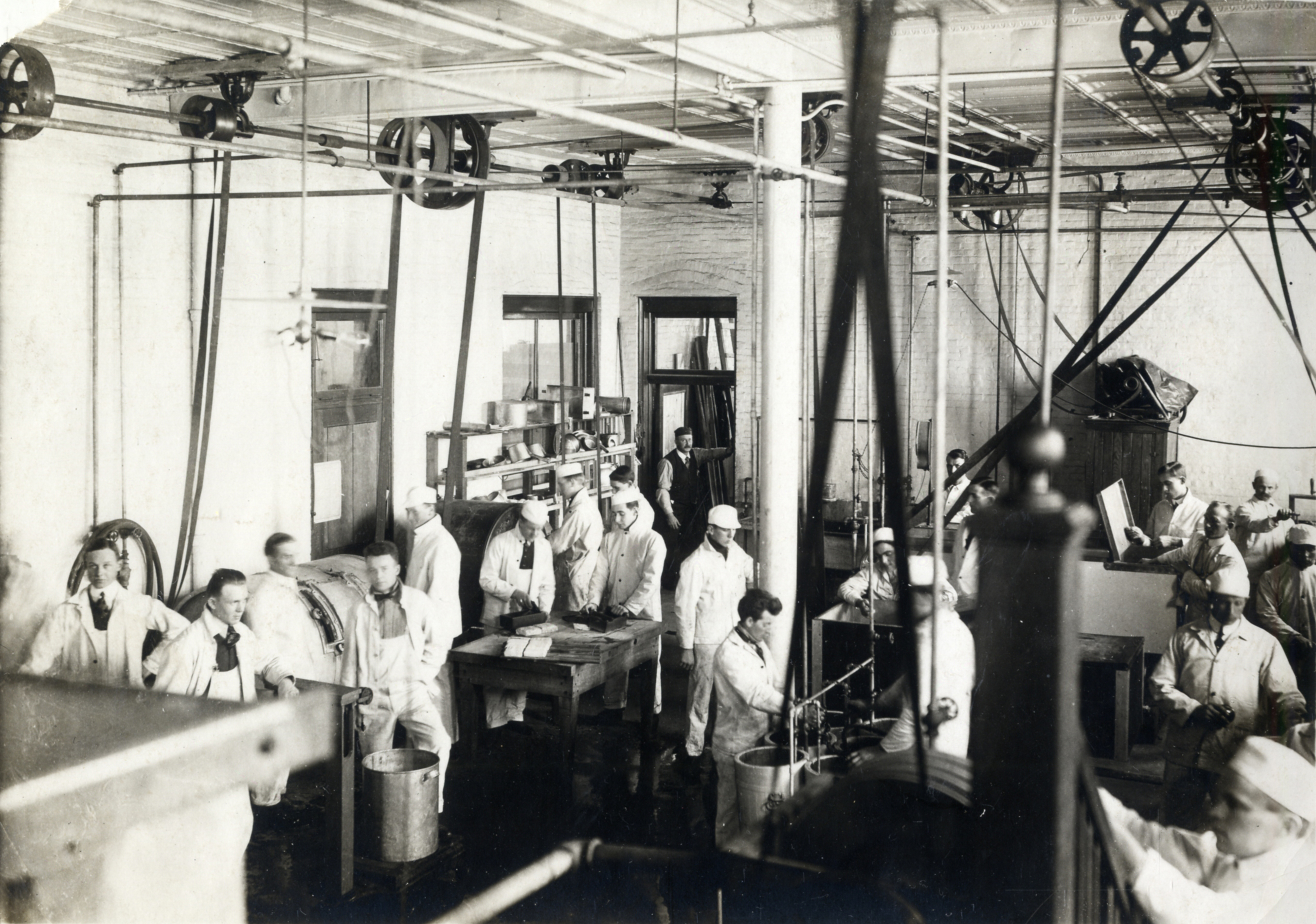 Basement dairy operation in Morrill Hall at the University of Vermont, Burlington, Vermont, early 1900s.